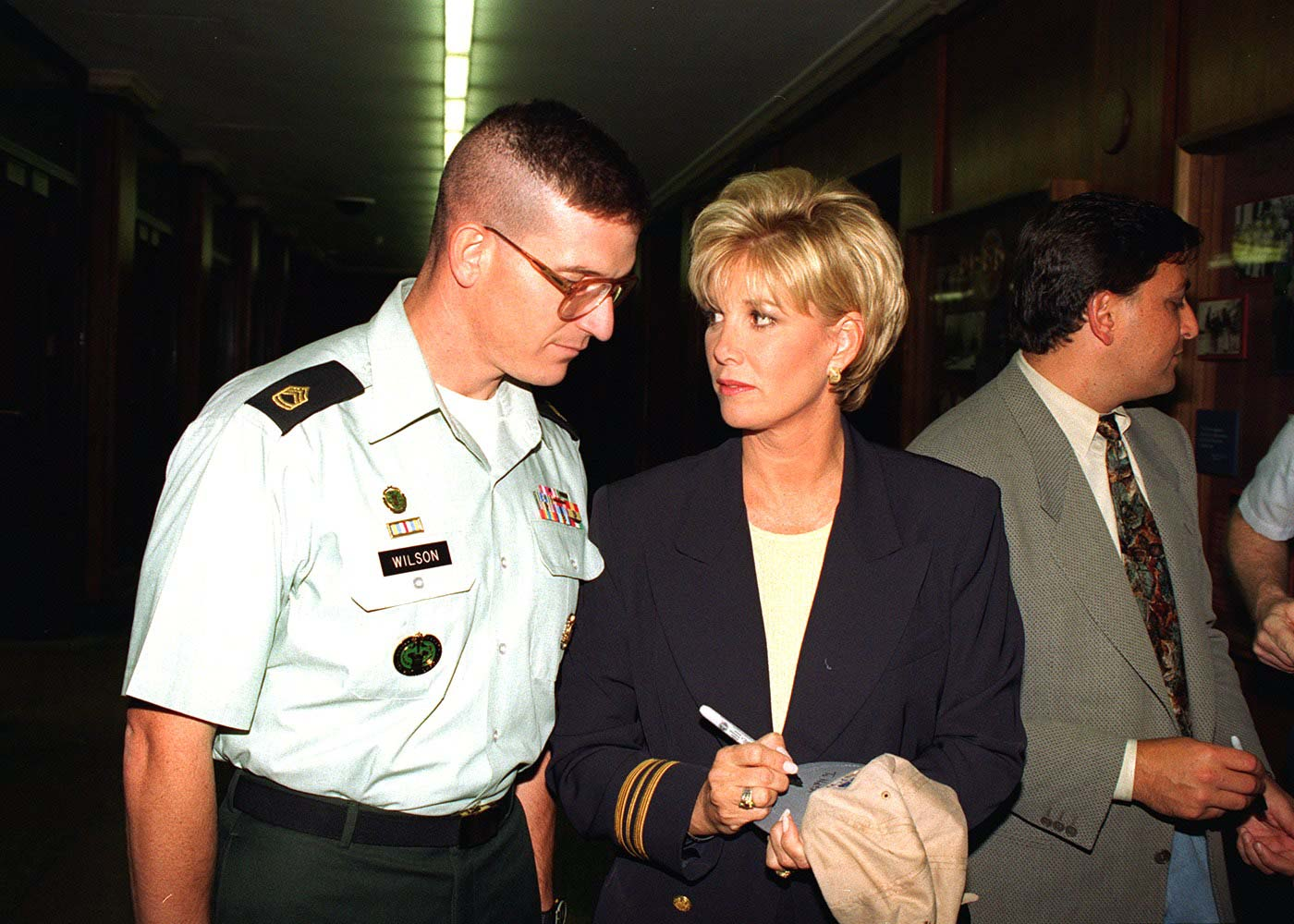 ABC television talk show host Joan Lunden autographs a baseball cap for Army Sgt. 1st Class Nathan E. Wilson, a Joint Staff security specialist in the Pentagon. Lunden visited the Pentagon for her fourth "Behind Closed Doors" special, to be aired in October. She interviewed Defense Secretary William Perry and Army Gen. John M. Shalikashvili, chairman of the Joint Chiefs of Staff, and visited other Pentagon nerve centers. (Note: Her jacket is civilian; the stripes are ornamental.)